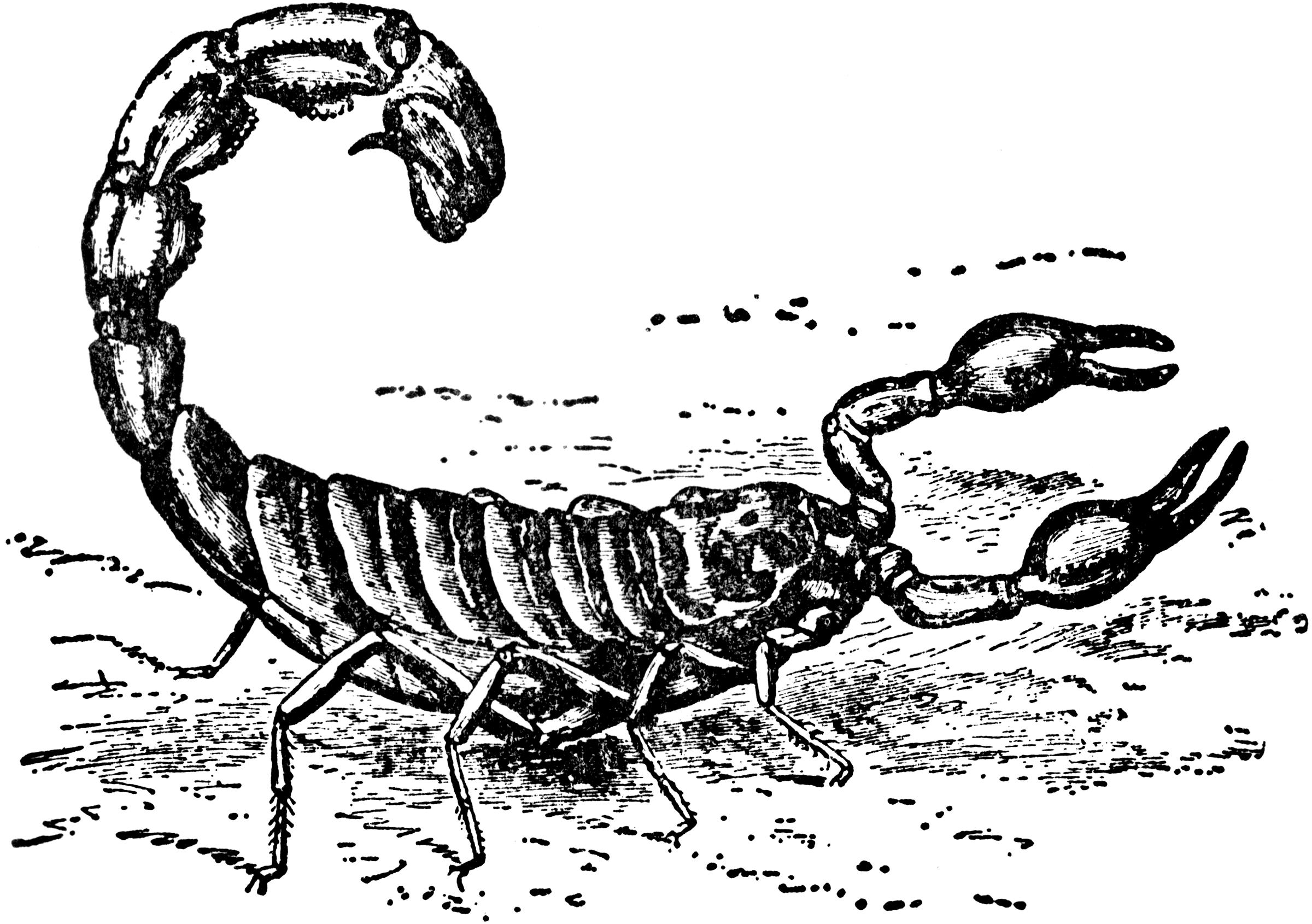 From Lankester, Journ. Linn. Soc. Zool. vol. xvi., 1881.Drawing from life of the desert scorpion, Buthusaustralis, Lin., from Biskra, North Africa.